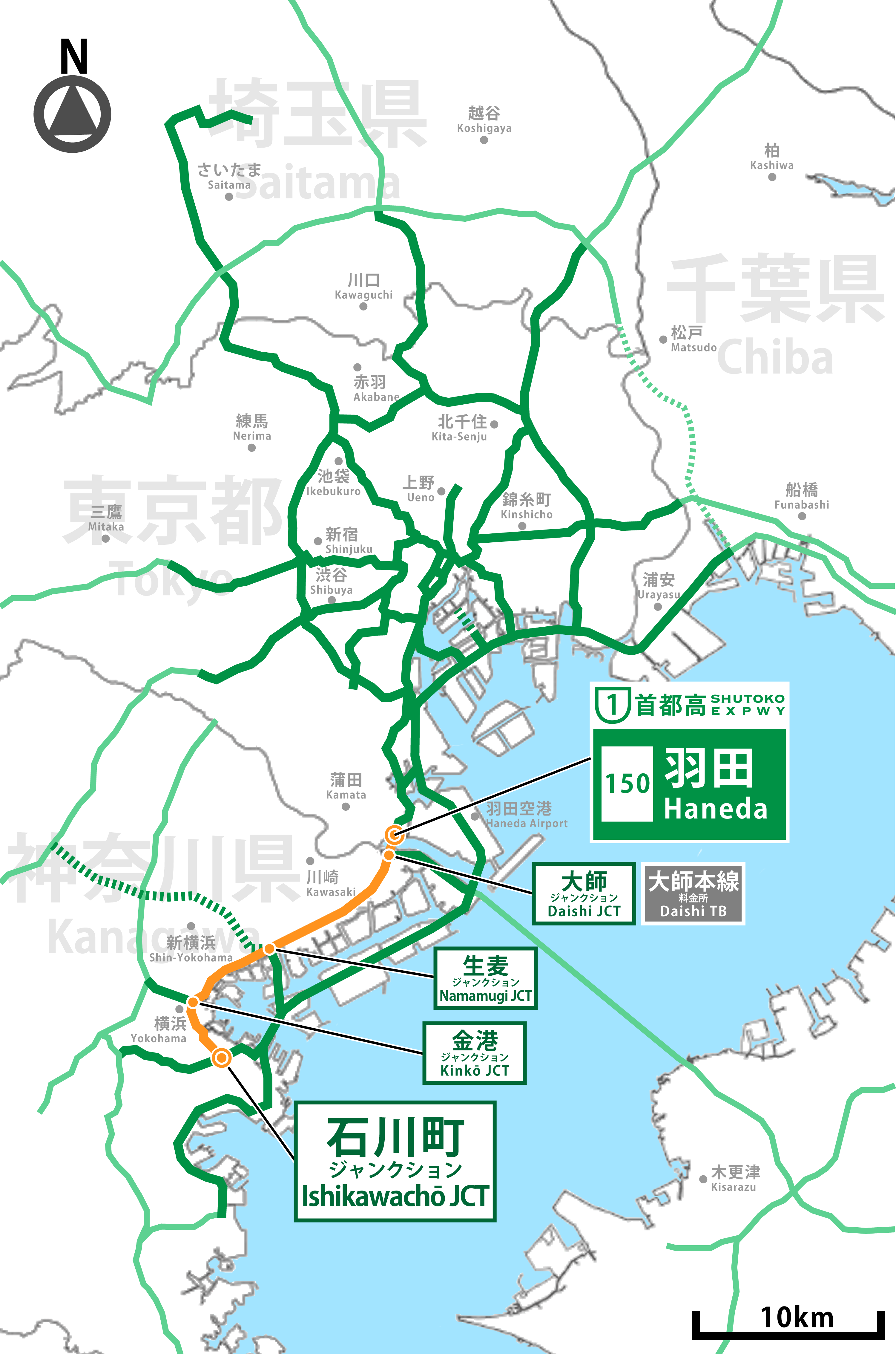 Yokohane Route of Tokyo Metropolitan Expressway aka Shutoko Expwy